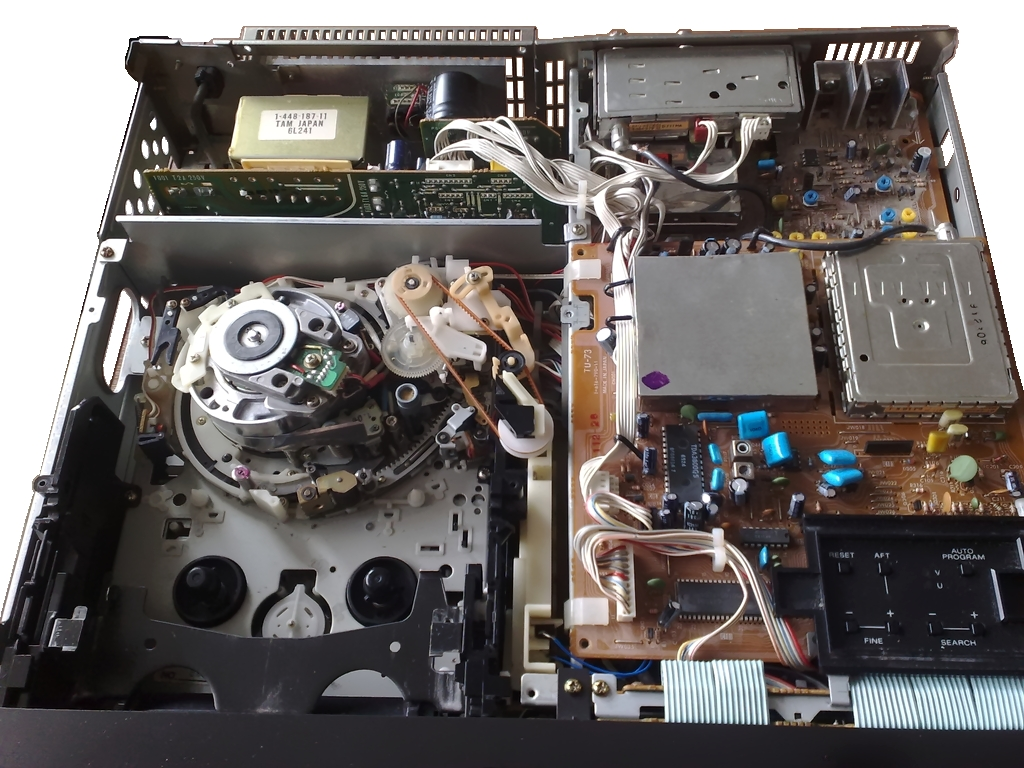 SL-HF150 opened. Top of the interior of the Betamax VCR. Showing at least most of the important main components, such as (at least in nowdays considered) heavy-duty power source, tape mechanism and it's parts, main circuit boards, and tv-tuner push buttons.